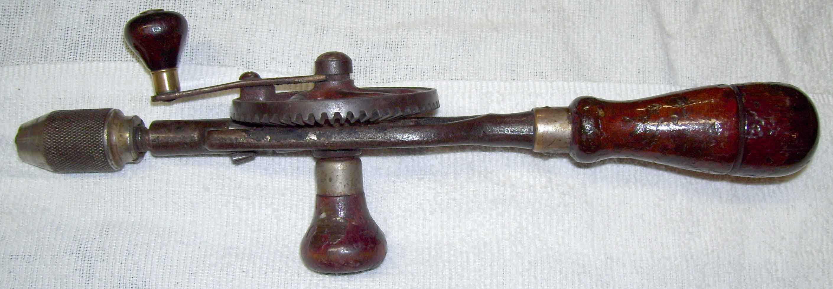 An old hand drill සිංහල: බුරුමය